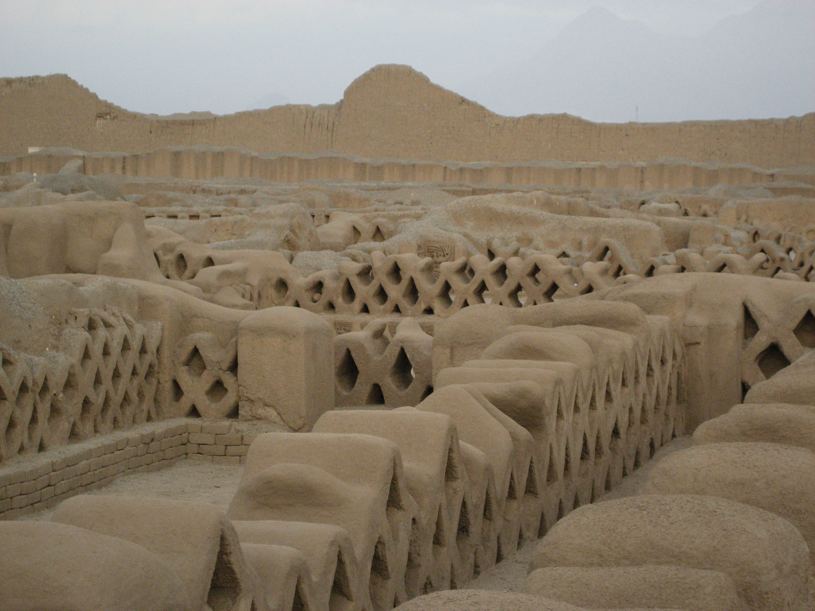 Chan Chan Archaeological Zone (Peru)